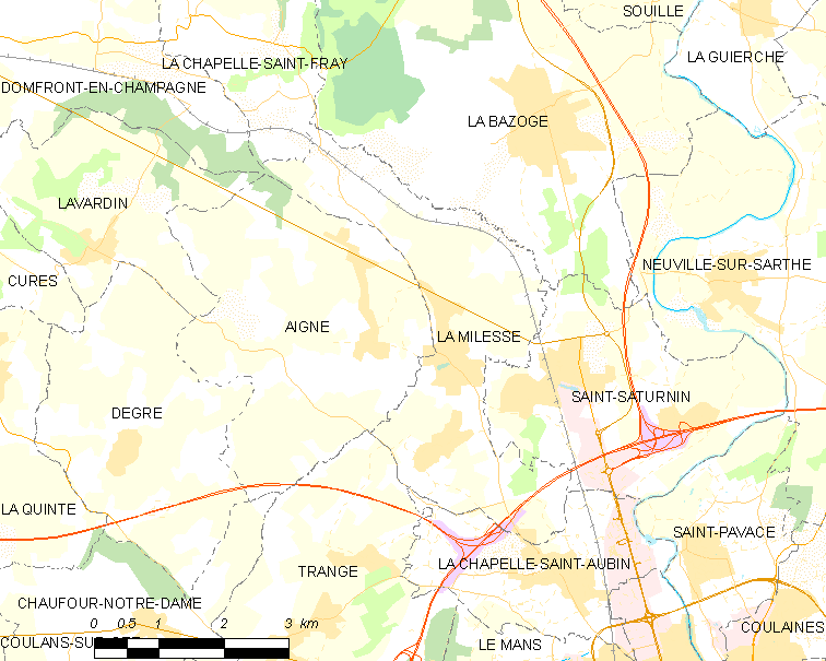 Map of French municipality